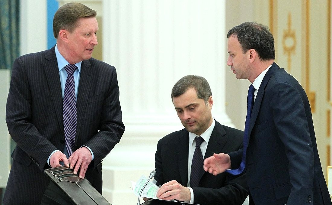 Prior to the meeting on the implementation of the Presidential Decree of May 7 2012 year. From left to right: Head of the Presidential Administration Sergey Ivanov, Deputy Prime Minister — Head of Government Staff Vladislav Surkov and Deputy Prime Minister Arkady Dvorkovich